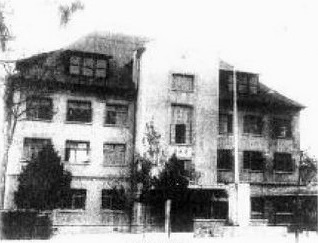 Jingcheng Building of The High School Affiliated to Anhui Normal University